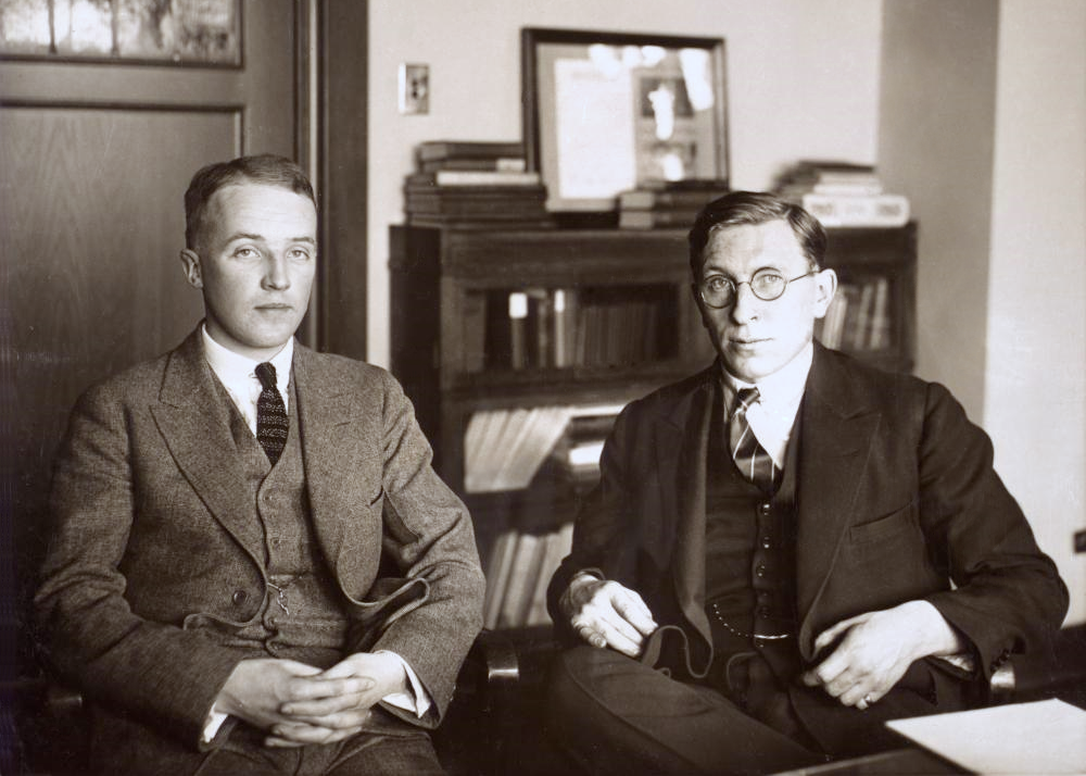 Photograph of C. H. Best and F. G. Banting ca. 1924, 20 x 15 cm. (MS. COLL 76 (Banting) Scrapbook 1, Box 3, Page 171) University of Toronto Library